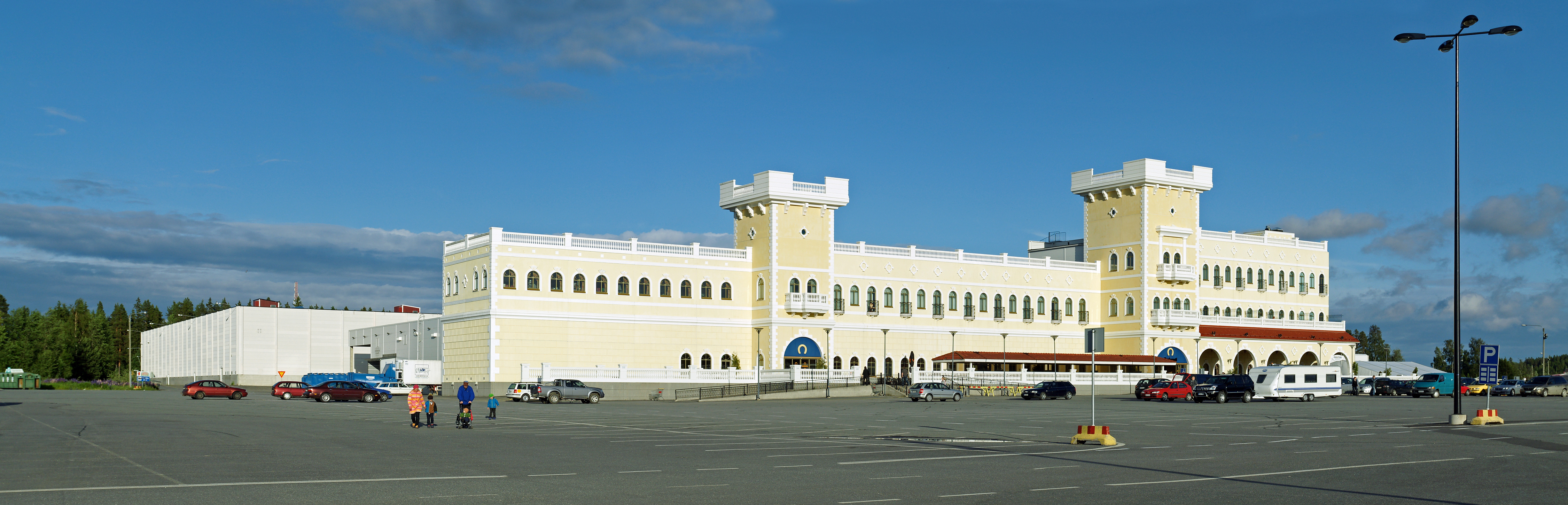 Panorama of Veljekset Keskinen department store situated in Tuuri, Töysä, Finland.